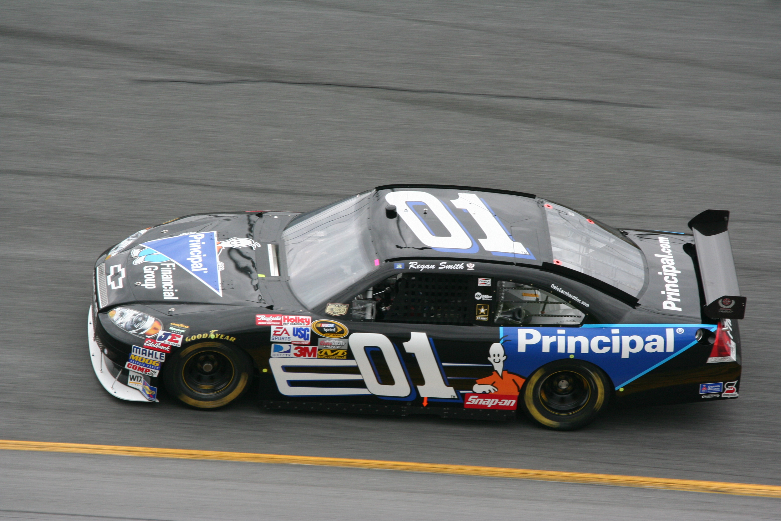 Shot by The Daredevil at Daytona during Speedweeks 2008Regan Smith Principal Chevy Impala